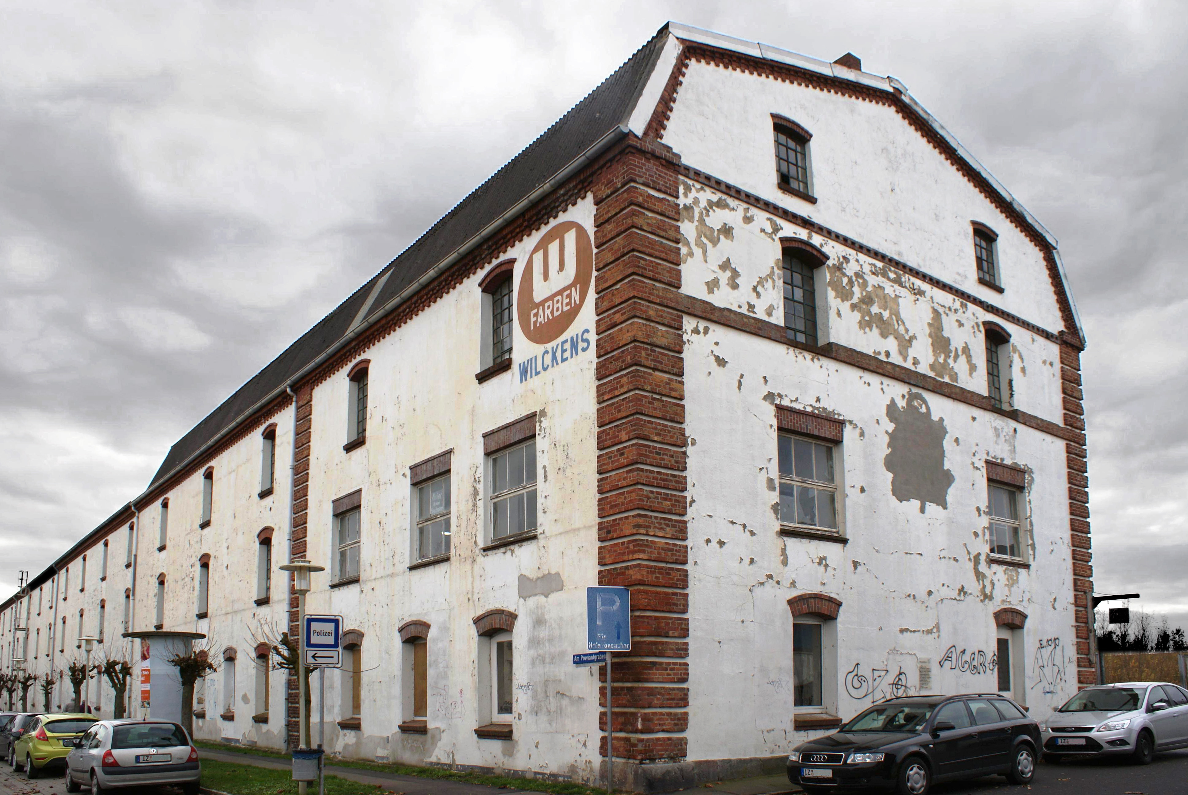 The Provianthaus at Glückstadt, all what's left of the formerly Castle of Glückstadt